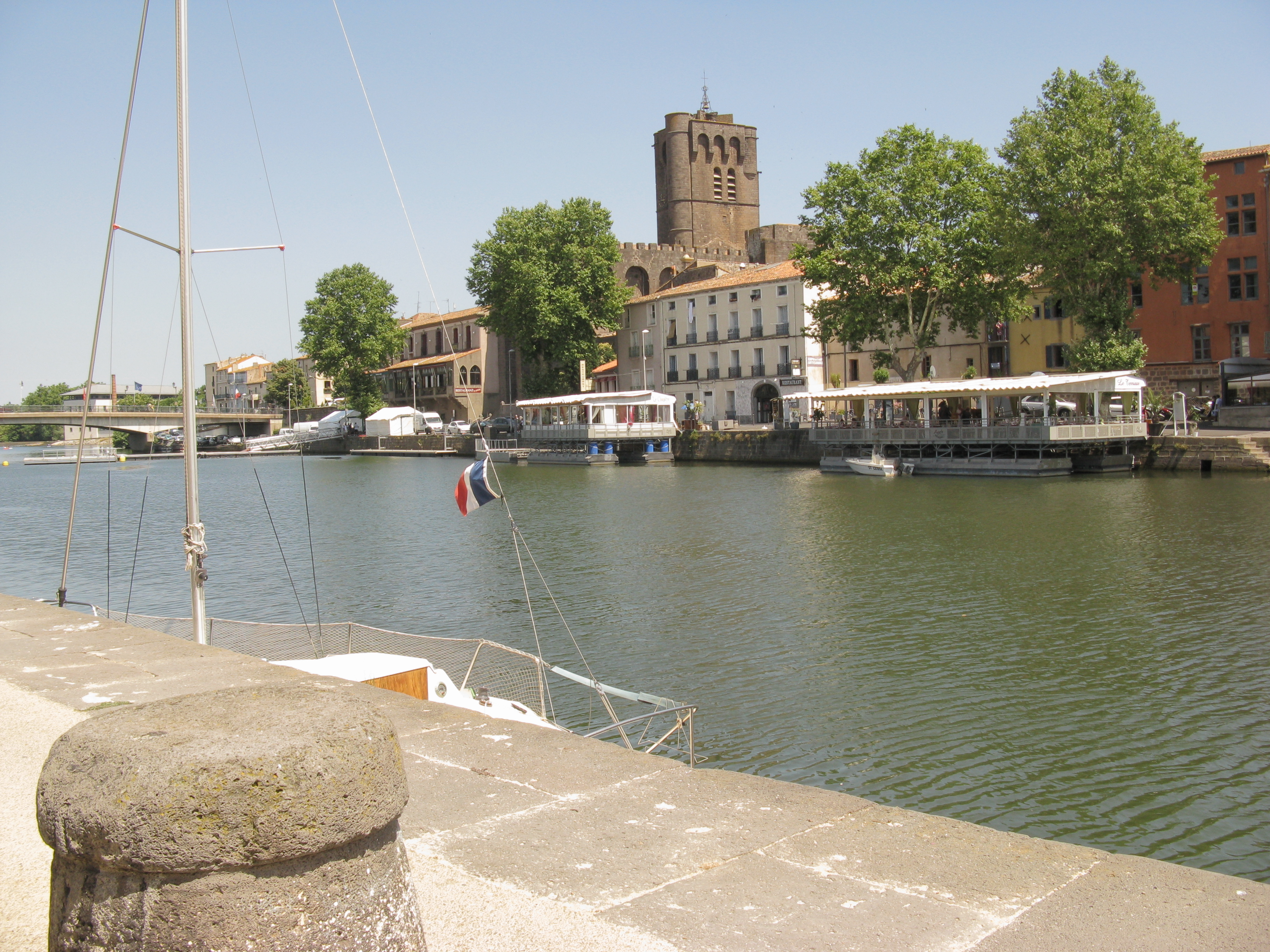 View of Agde from the right bank of the Hérault.